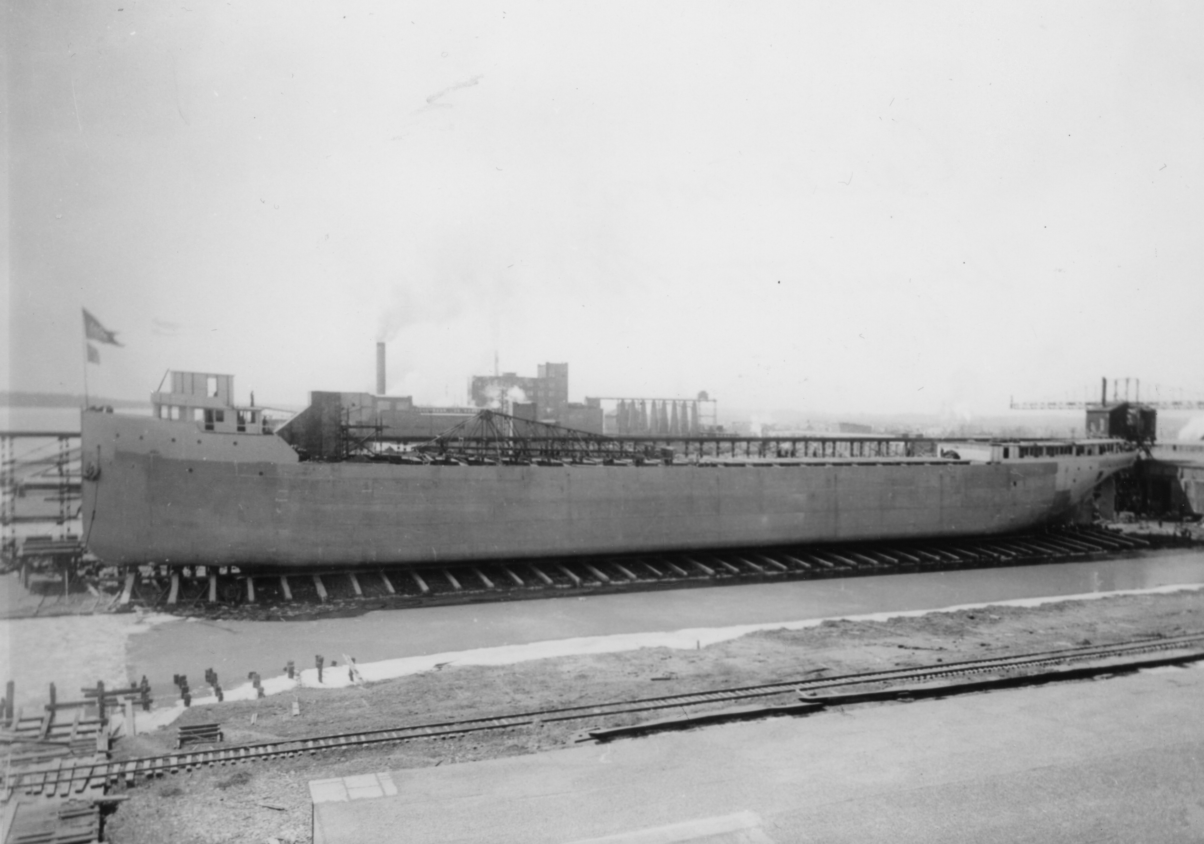 Launch Day at the Detroit Shipbuilding Co. Wyandotte, Michigan March 30,1912, Str. "Calcite"